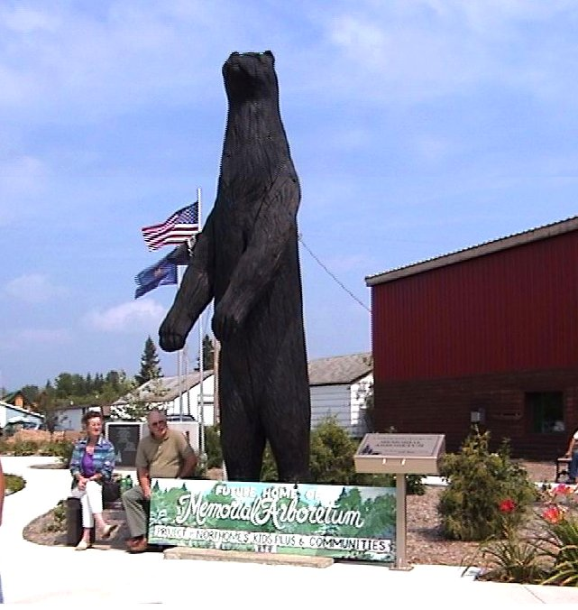 Black Bear Statue, Northome, Minnesota. August 2006 Photo created by Nerfer 05:31, 23 September 2006 (UTC)